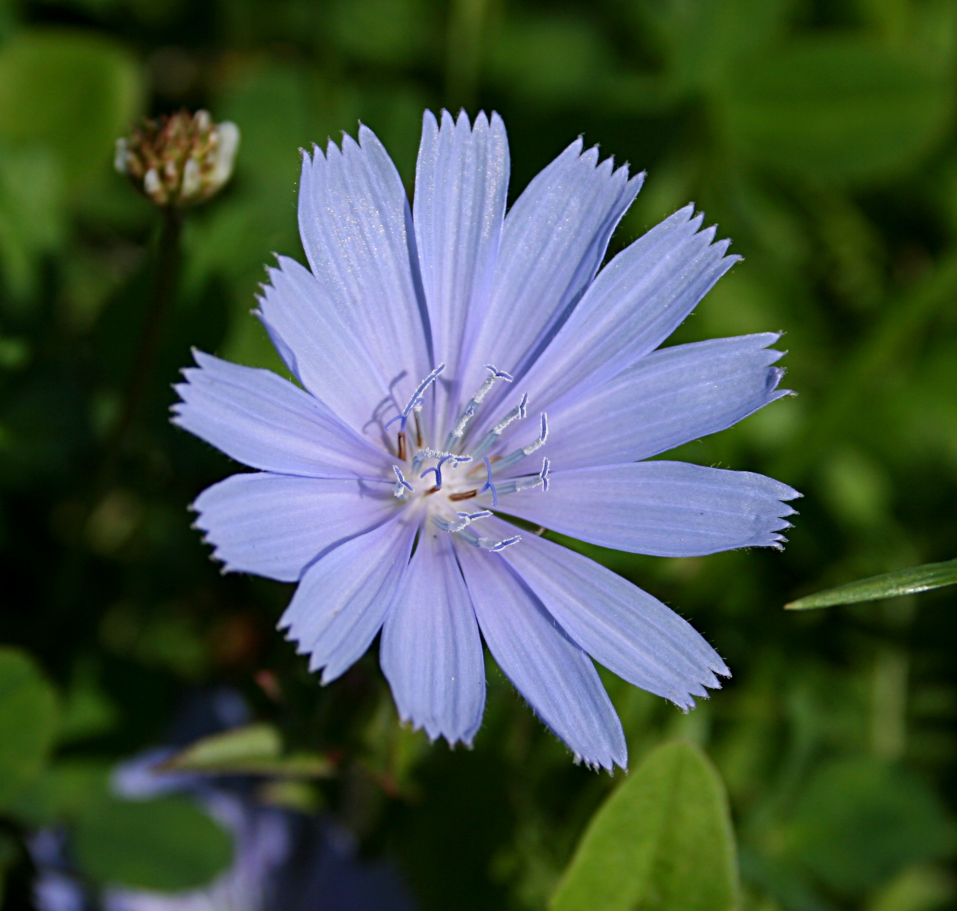 Chicory (Cichorium intybus)